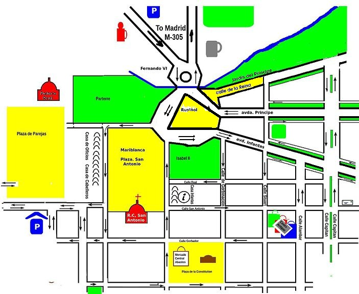 Rough sketch of the historical centre of Aranjuez (not to scale